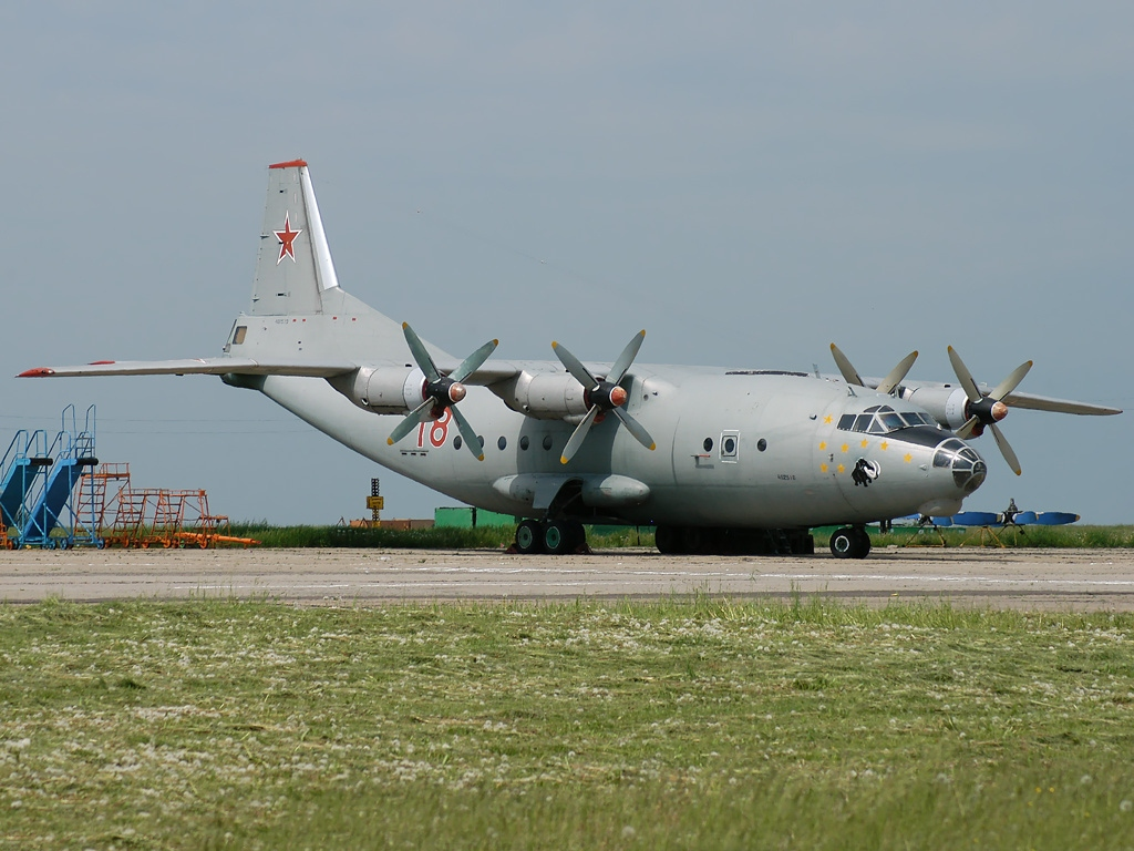 Aviation holiday at Tambov - Selezni AFB